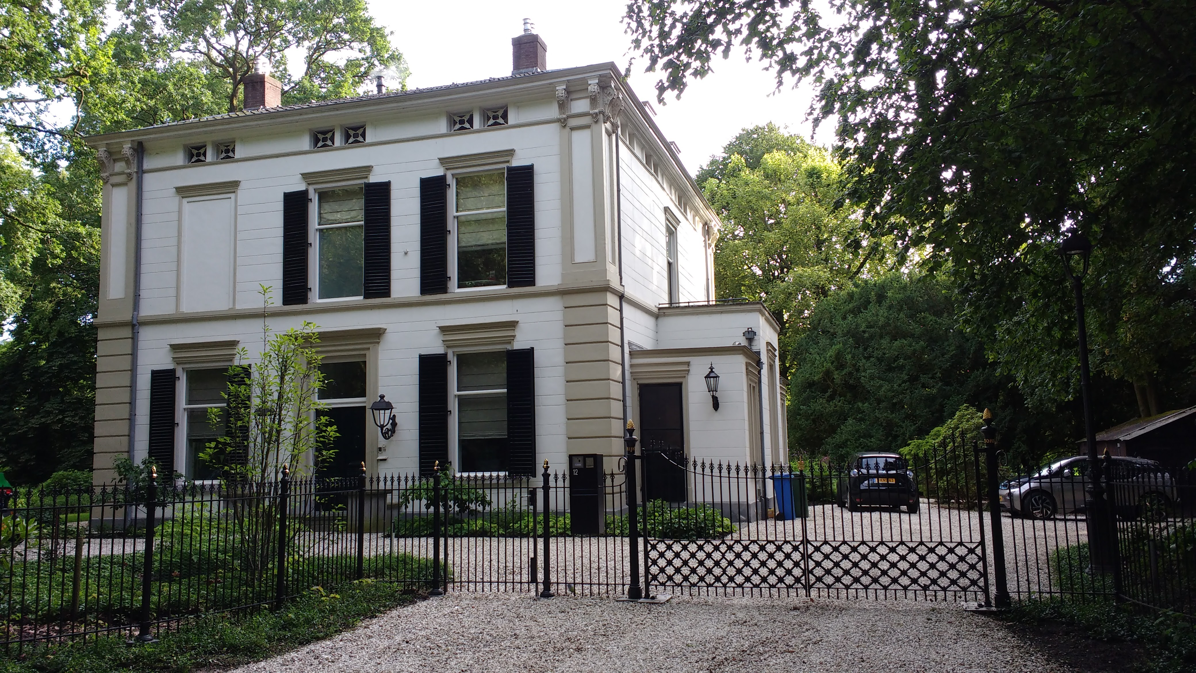 Huize Rijnoord